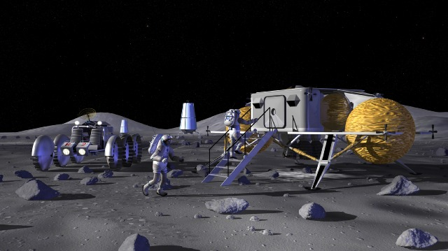 This artist's rendering represents a concept of possible activities during future space exploration missions. It depicts a human tended lunar base. JSC2004-E-18833 (April 2004) (NASA)